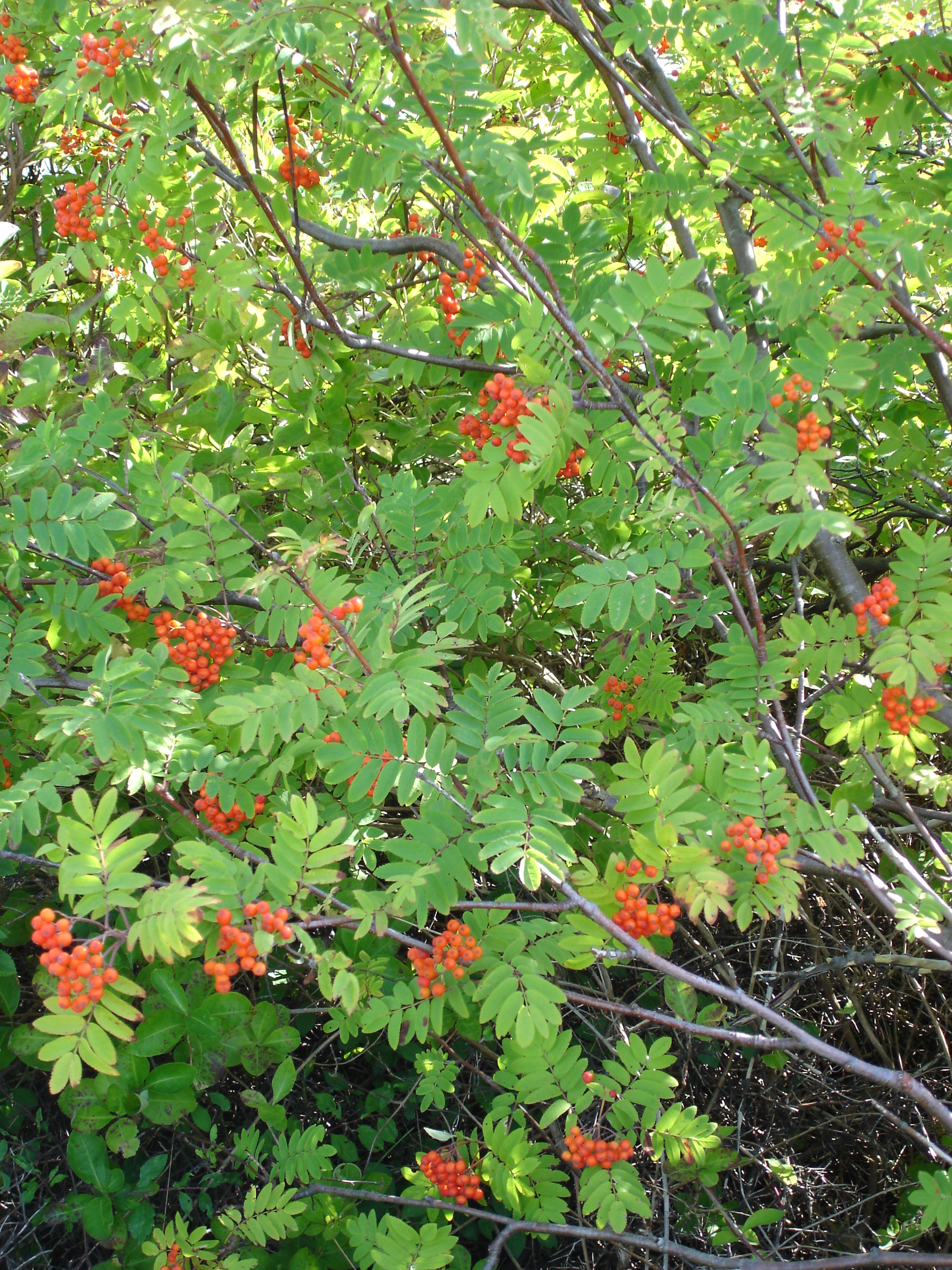 This tree is called Rowan in English (scientific name is Sorbus aucuparia). It's also called Rogn (Norwegian), Almindelig Røn (Danish), Kotipihlaja, Pihlaja (Finnish), Reyniviður (Islandic), Eberesche (German). The tree belongs to the family Rosaceae, its orange berries have several uses. Image taken just north west of Gothenburg, Sweden. It was taken by Martin Olsson (mnemo on wikipedia and commons, ), 17th of August 2005. The camera used was a Sony Cybershot DSC-W1 which has 5.1 megapixels. This image is published on Wikipedia Commons by Martin Olsson under the GFDL license.